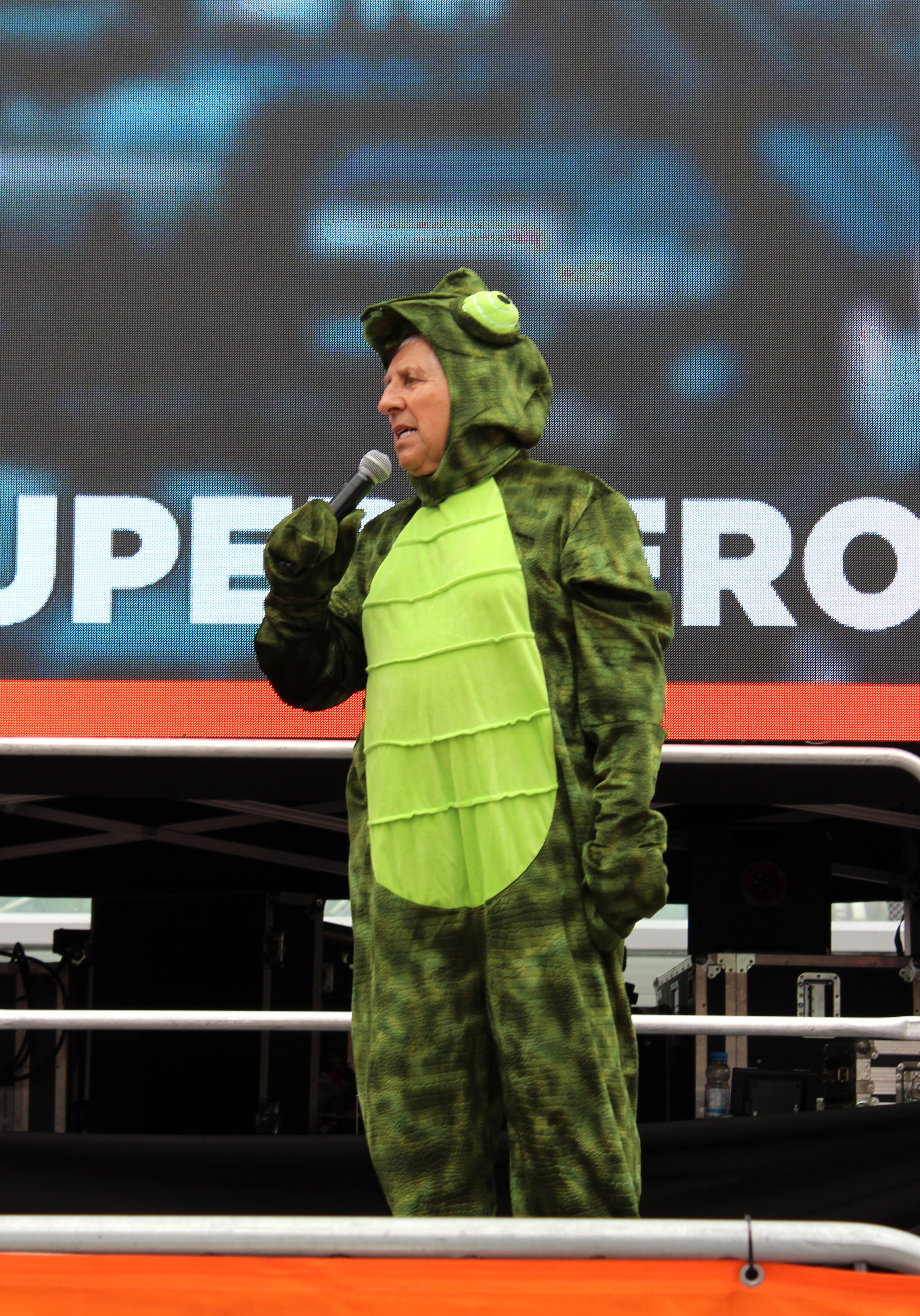 Pete Price onstage compering the Superhero Skyfall charity event in Liverpool, 4 May 2018.